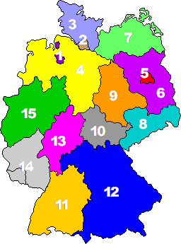 Hockey associations in Germany